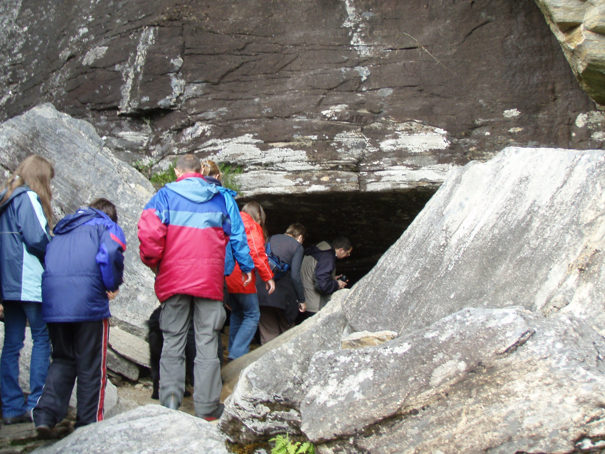 From entrance of the natural cave Grønligrotta, Norway. None of persons on pic are recognizable for anyone but themselves, so I did not ask permission, only cut away one profiled person.